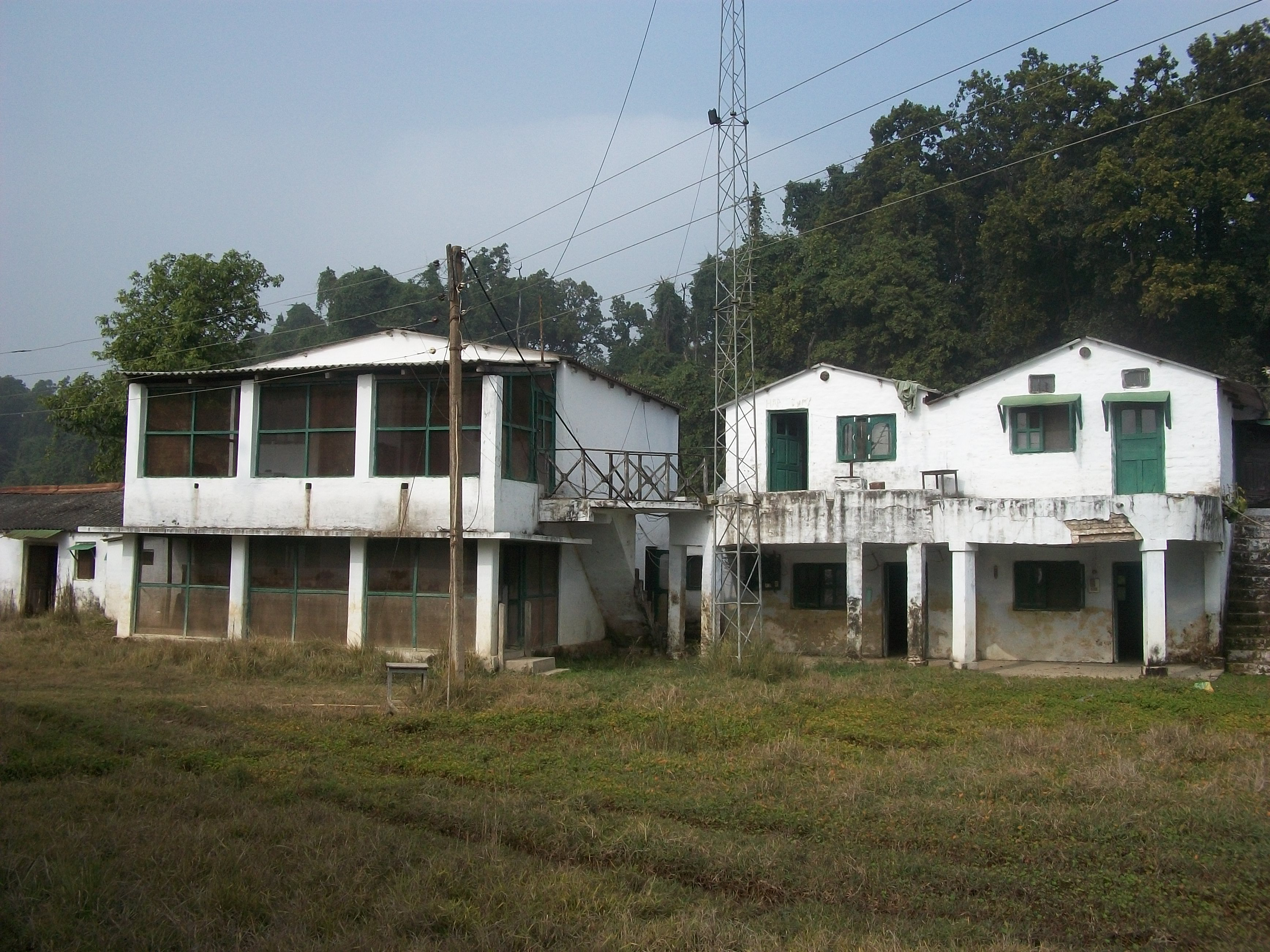 Tiger Haven